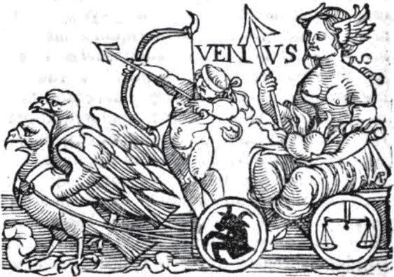 Venus, from Guido Bonatti Liber Astronomiae